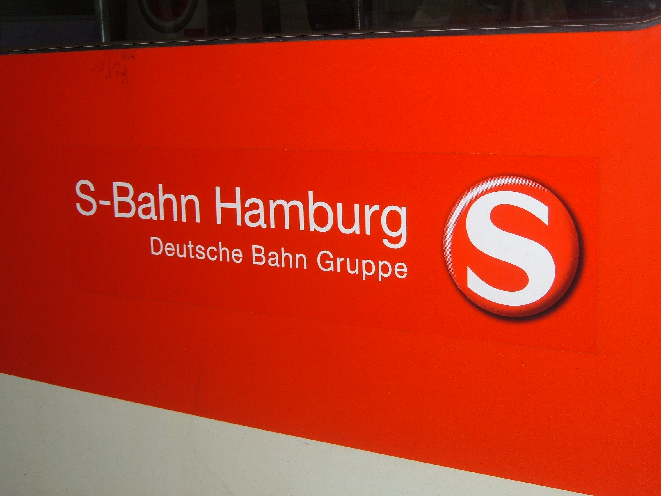 Logo der S-Bahn Hamburg bis Dezember 2007. Logo of the Hamburg S-Bahn that was used until December of 2007.